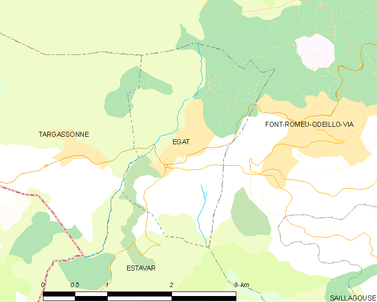 Map of French municipality